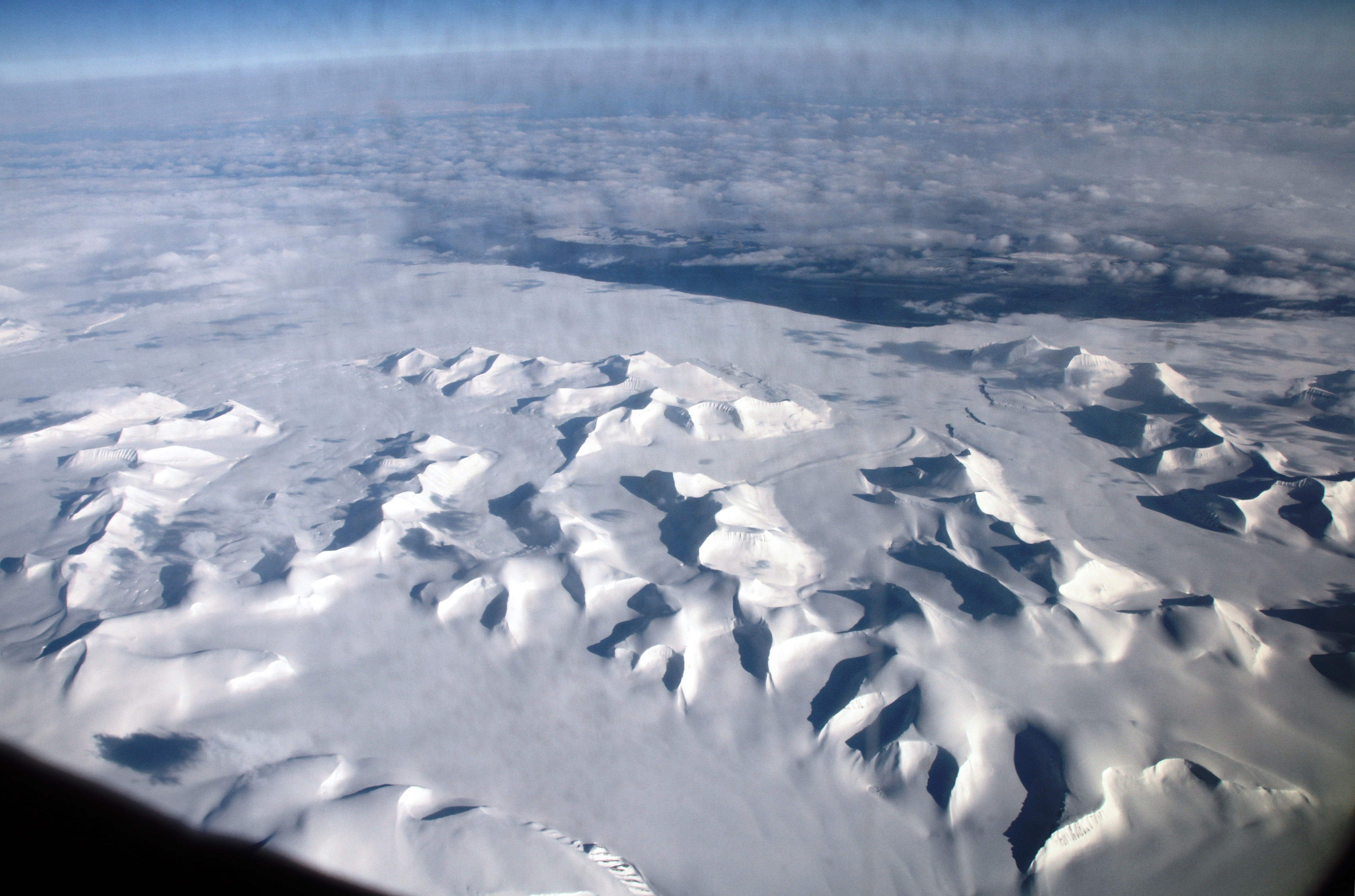 Image from the west towards east, of the boardering areas between Nathorst Land and Torrell Land - SPitsbergen (Norway)